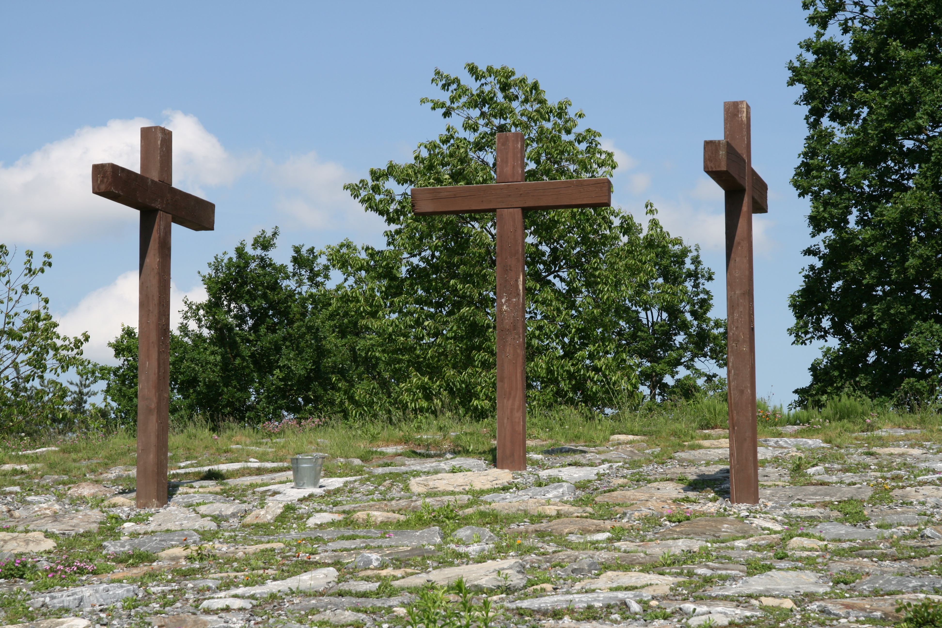 "Painting to Hammer a Nail in / Cross Version", sculpture by Yoko Ono, 2005 (1990, 1999, 2000), Austrian Sculpture Garden, Unterpremstätten near Graz, Styria, Austria.